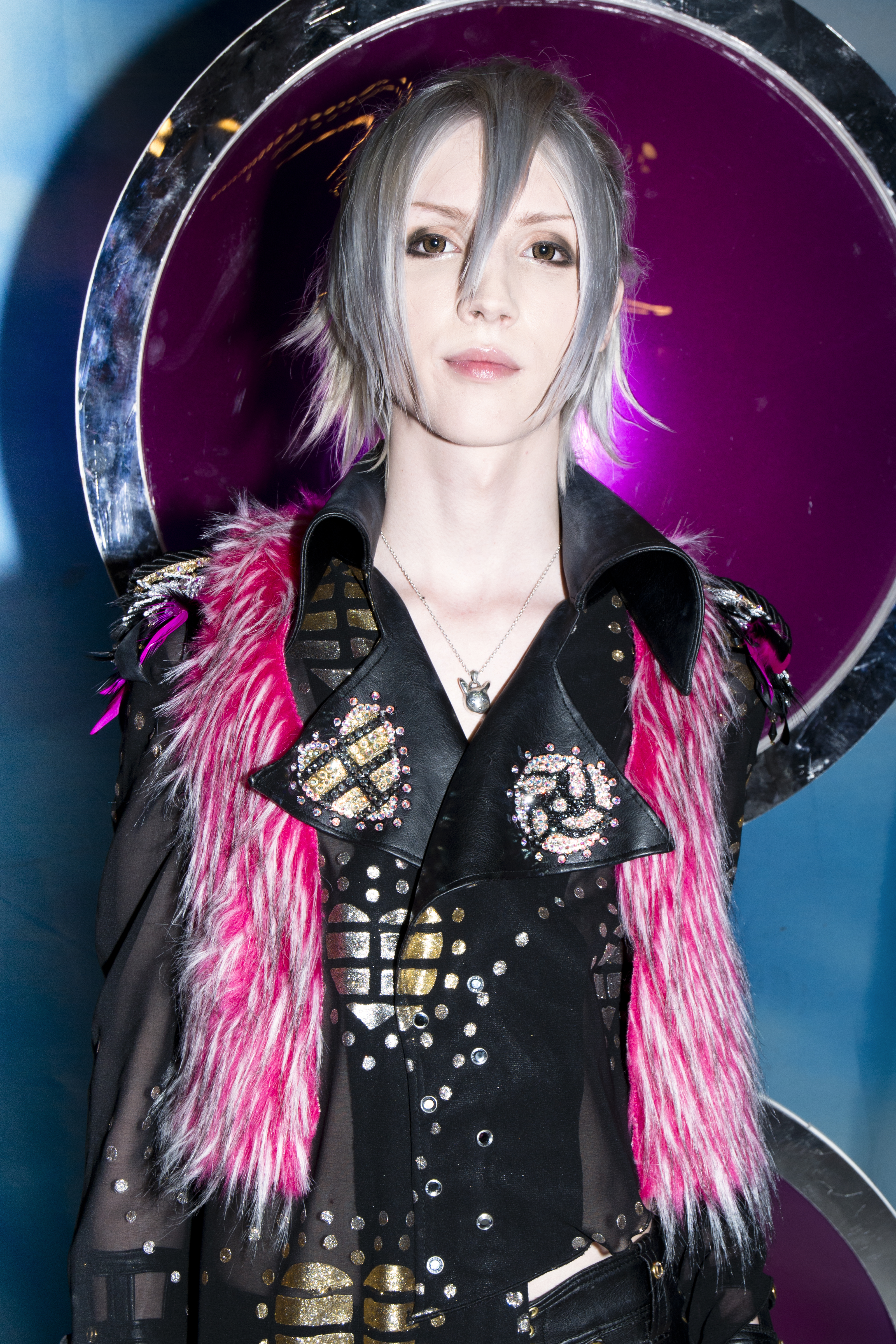 Yohio at Sommarkrysset in Sweden, Stockholm, Gröna Lund 2013